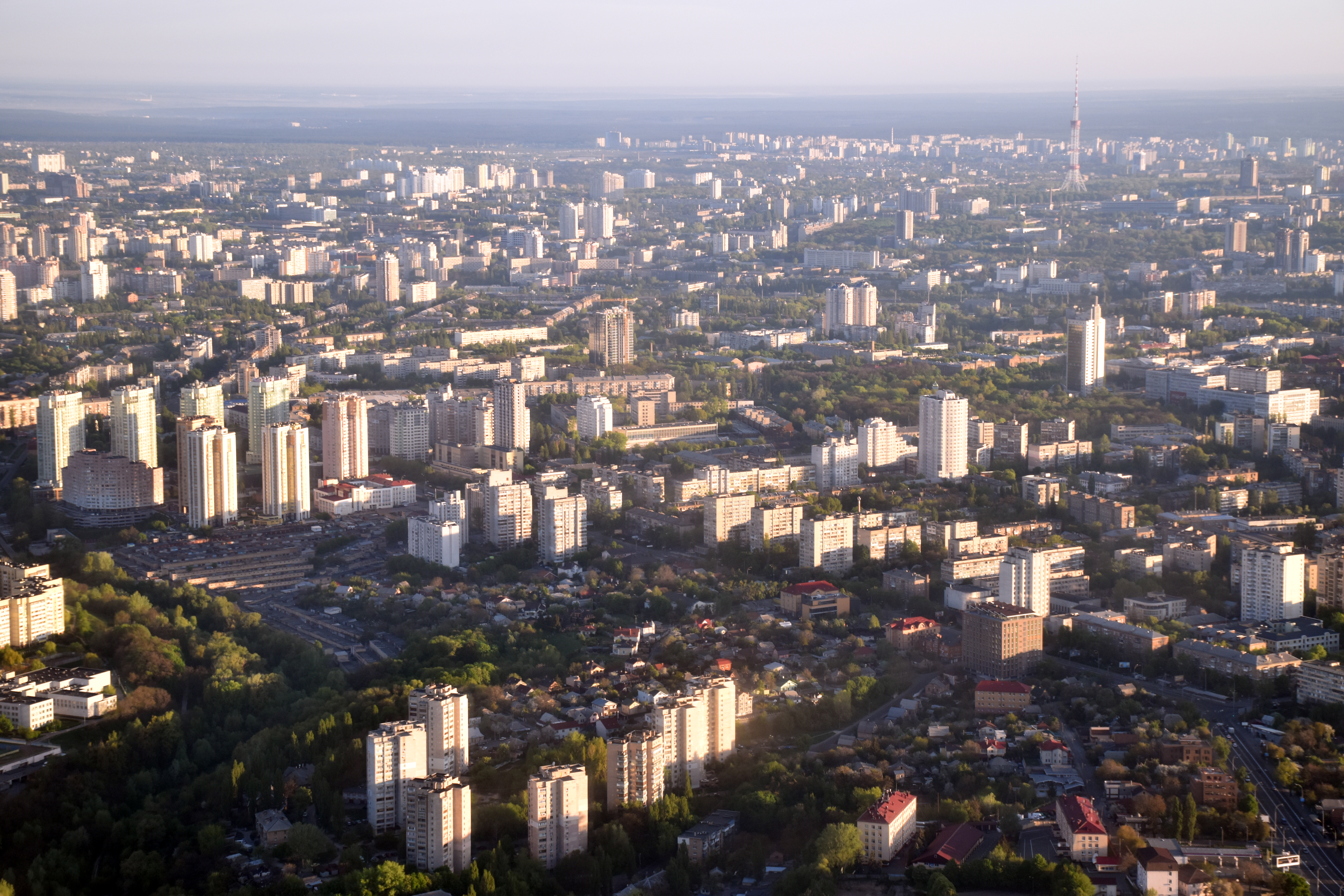 Aerial view of Kiev from the south-west. Aleksandrovskaya Slobodka neighbourhood is in the foreground. Valeriya Lobanovskoho Avenue and Petra Radchenka Street are visible in the lower centre. In the upper right corner in the distant view is Kiev TV tower.